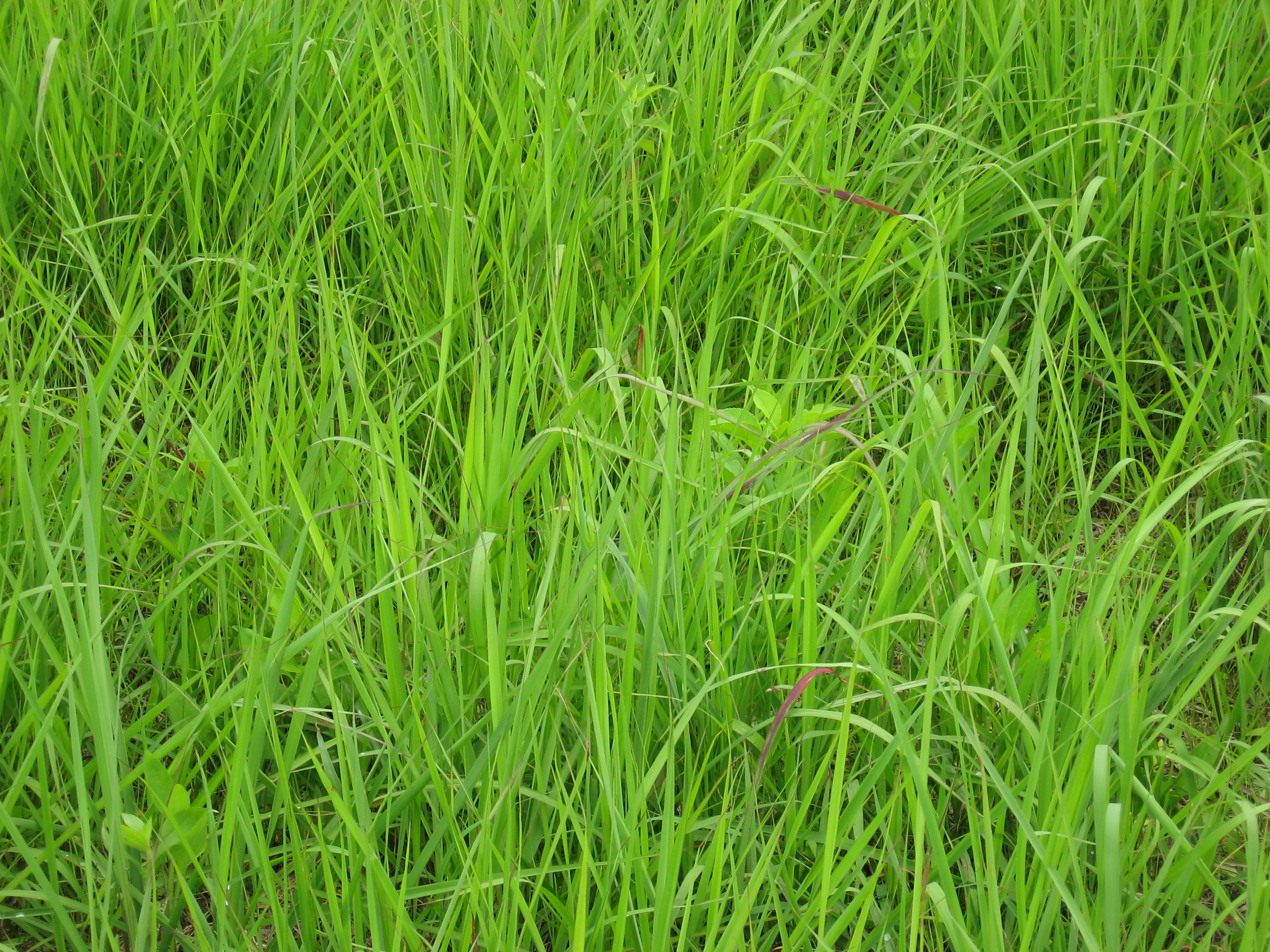 A picture of Sorghastrum nutans.